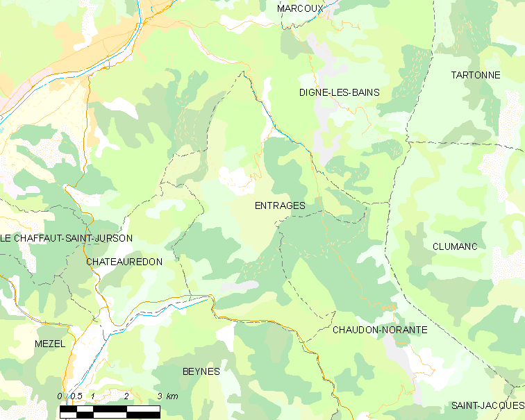 Map commune FR insee code 04074.png Légende